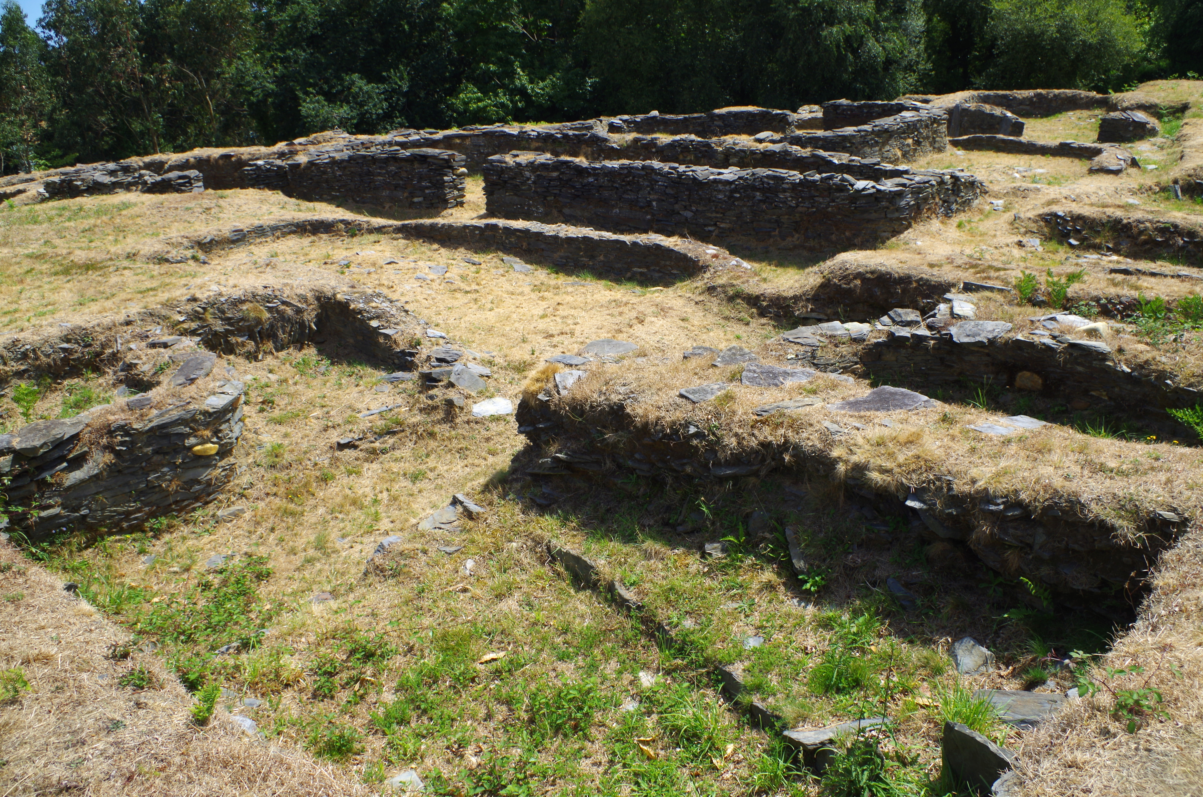 Hill fort of Mohias, near Mohías, Coaña (Asturias, Spain)